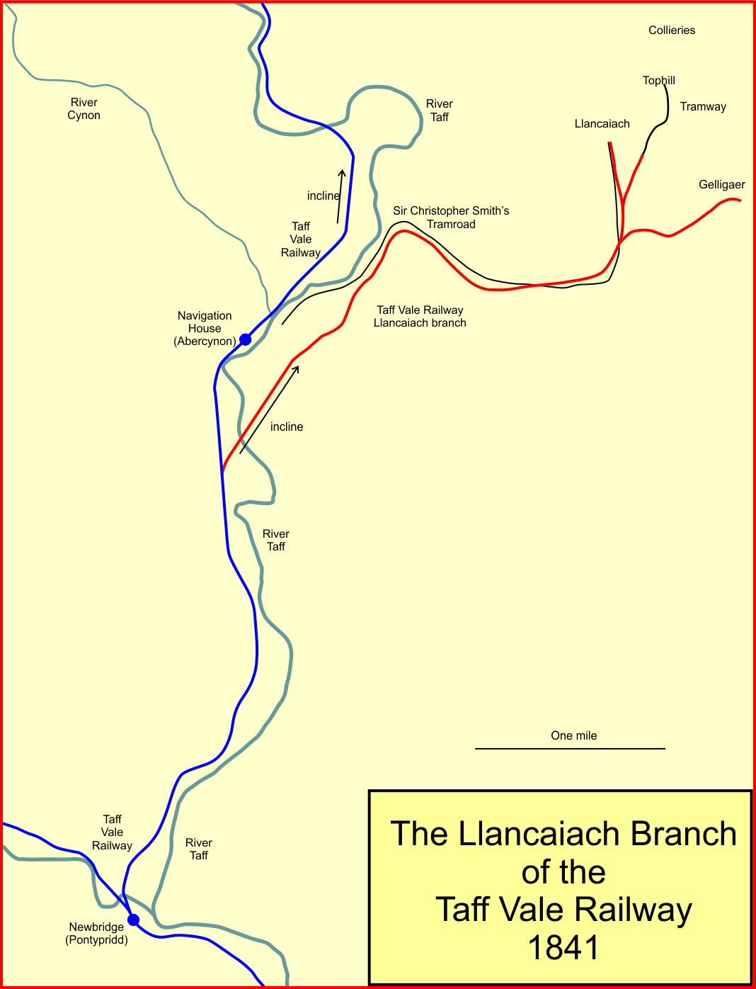 System map of the Llancaiach branch of the Taff Vale Railway, Wales